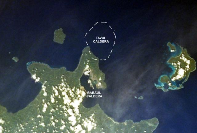 The mostly submarine Tavui caldera at the NE end of New Britain lies off the tip of the Gazelle Peninsula. The SW wall of the roughly 10 x 12 km wide caldera, its margins crudely shown on this image, cuts the NE tip of the peninsula. Tavui caldera, much less known than its prominent neighbor to the south, Rabaul caldera, was first discovered during a bathymetric cruise in 1985. Light ash-covered areas from the 1994 Rabaul eruption can be seen at the western and NE margins of Rabaul caldera in this 1999 NASA Space Shuttle image.